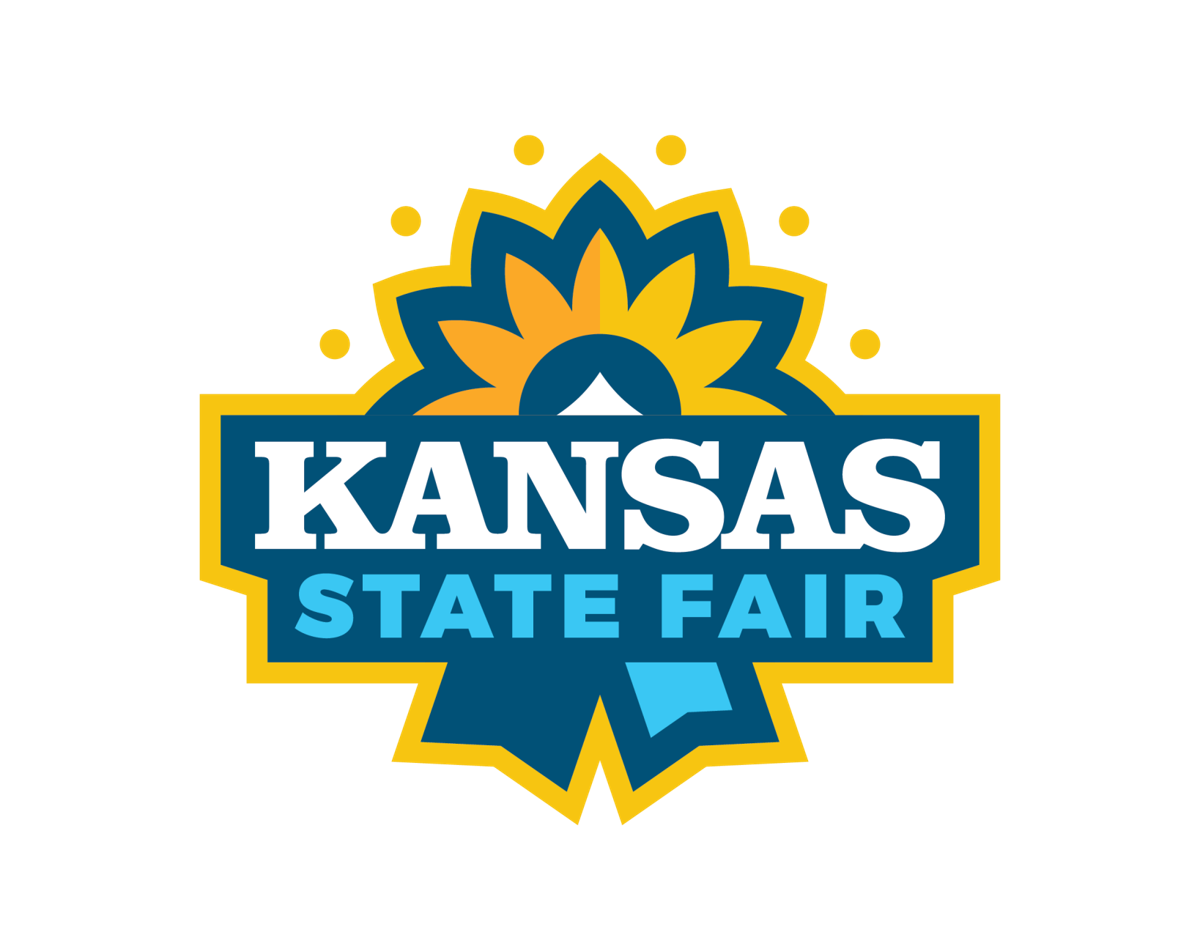 Current Kansas State Fair Logo, rebranded in 2019